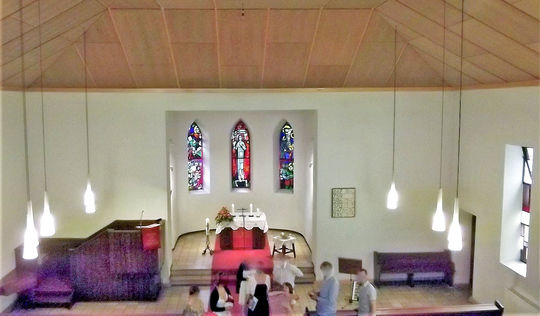 Interior of the protestant church in Fischbach-Camphausen, Saarland, Germany